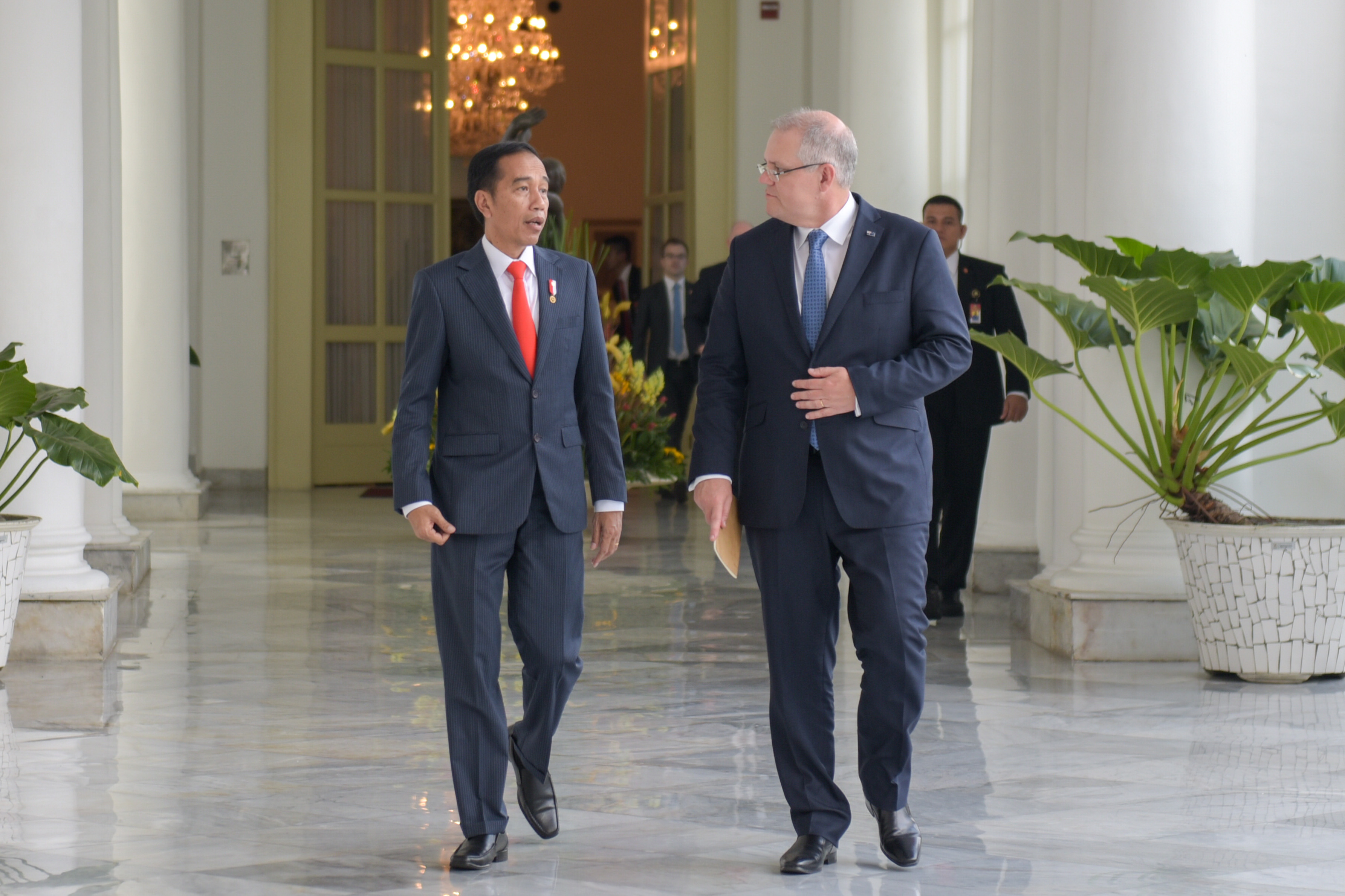 Photo credit: DFAT / Timothy Tobing